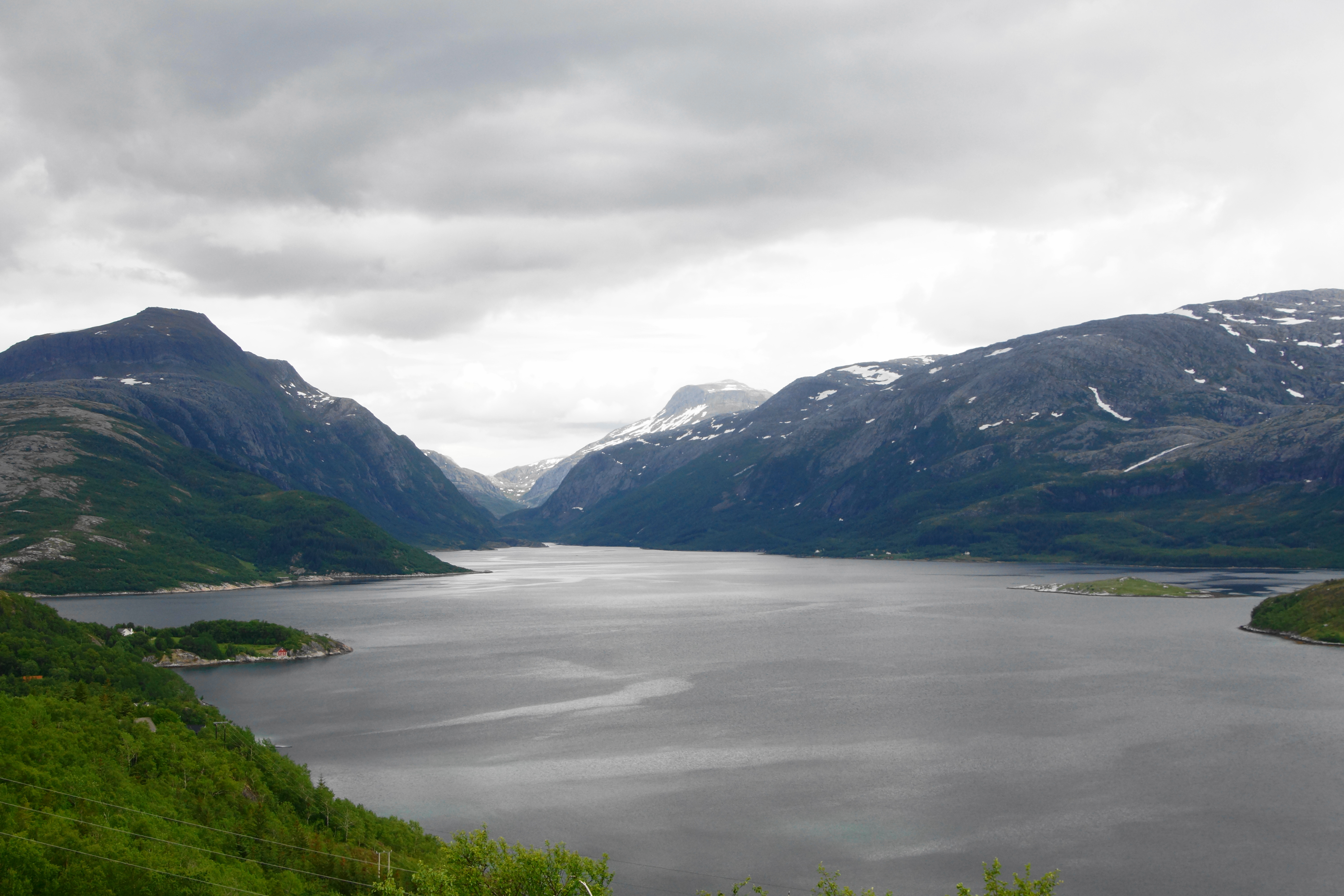 Øresvik is a village south Rødøy municipality. The village lay by Norwegian County Road 17, on the west side of Sørfjorden. The picture shows Gjervalen (Fjord bottom).